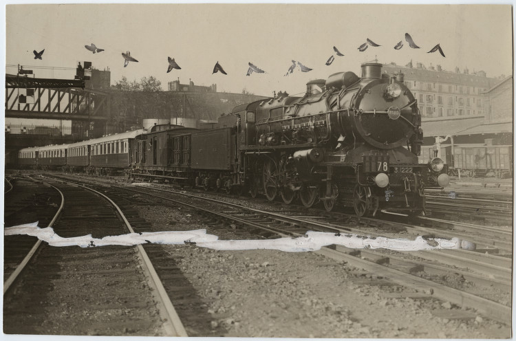 Title: Fleche d'Or, Golden Arrow, Paris Creator: Wide World Photos Place: Paris, France Part Of: David Goodyear collection of foreign railroad photographs Description: This photograph depicts the up Fleche d'Or, Golden Arrow, coming into the Paris Nord station not long after the service started. The train was number 78 for many years. The engine of the first series (a Breville Pacific) has not yet received smoke deflectors and still is running with an armistice tender. Source: Collyns, Adrian H. Northern Steam Vapeurs du Nord. DeGolyer Library, Southern Methodist University, 2003. Physical Description: 1 photograph: black and white; 15 x 23 cm. File: ag1983_0266_24_01_11r_fleche_sm_opt.jpg Rights: Please cite Southern Methodist University, Central University Libraries, DeGolyer Library when using this image file. A high-quality version of this file may be obtained for a fee by contacting . For more information, see: View Railroads: Photographs, Manuscripts, and Imprints